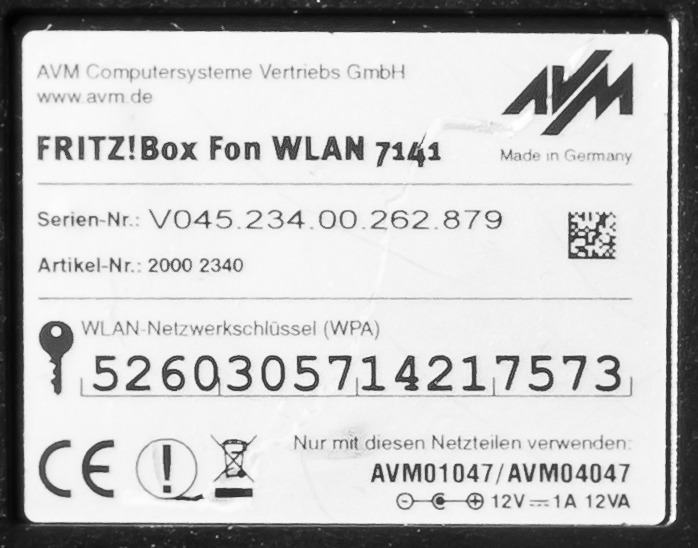 Fritz!Box Fon WLAN 7141 - Nameplate with WLAN network key (WPA)